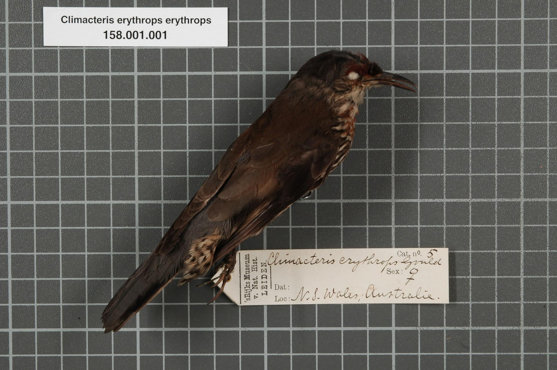 Climacteris erythrops erythrops Gould, 1841